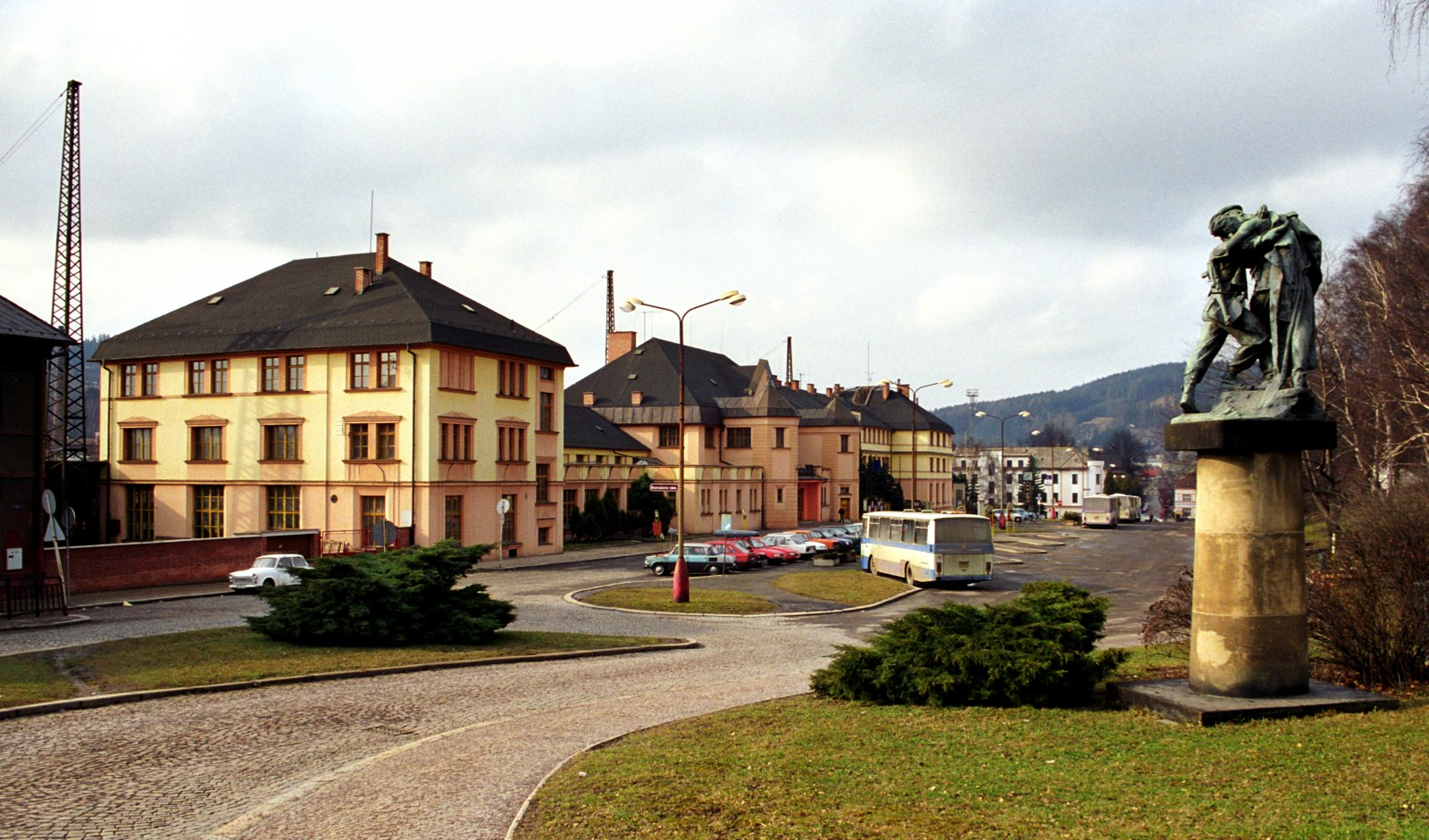 The railway station building in Česká Třebová from 1924.